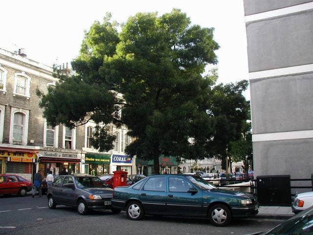 Fraxinus angustifolia photo by Sten first upload da.wikipedia 13. sep 2004 kl. 22:08 . . Sten (66110 bytes) (GFDL)